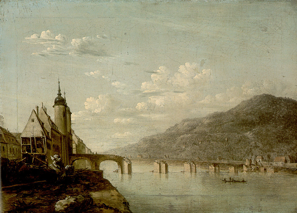 historic views of Heidelberg, Germany